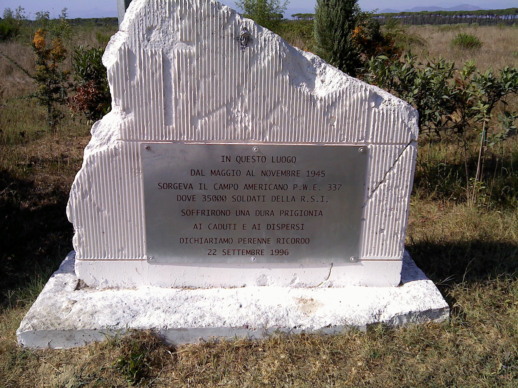 Plaque erected on the spot of the former concentration camp at Coltano (Pisa) on September 22 1996, in memory of the fascists belonging to the the Repubblica Sociale Italiana who fell prisoners of the Allied troops (so the inscriptions says...).